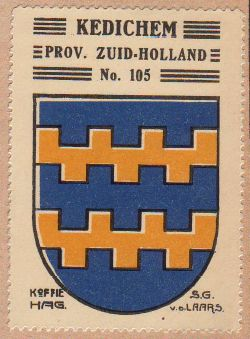 Coat of arms of Kedichem (Netherlands)